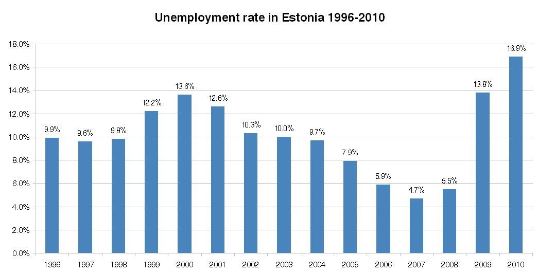 Unemployment rate in Estonia 1996-2010. Data source: Bank of Estonia